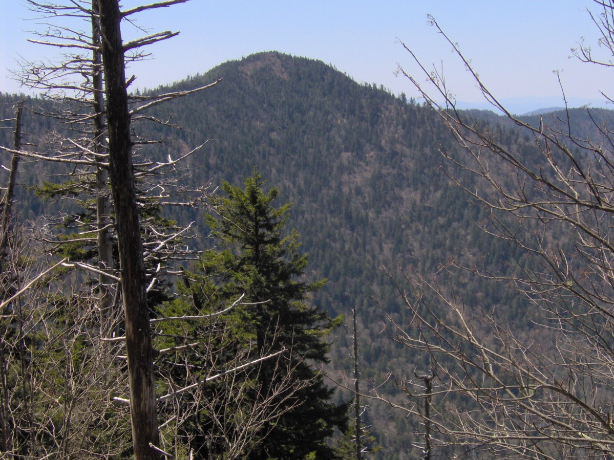 Mount Chapman (el. 6,417 feet/1,956 meters) in the Great Smoky Mountains, looking south from Mount Guyot.